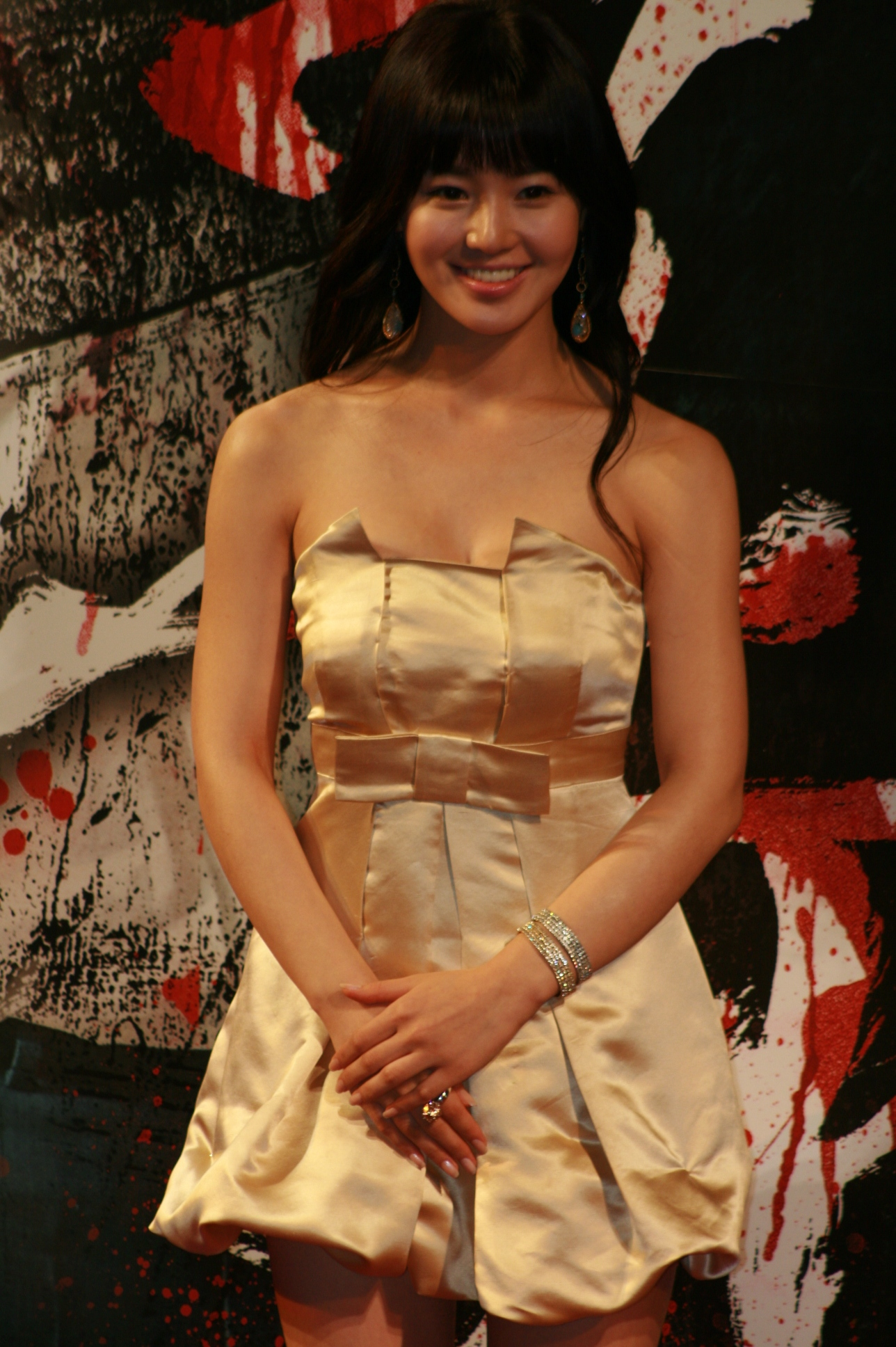 Nam Gyu-ri at the Death Bell premiere.